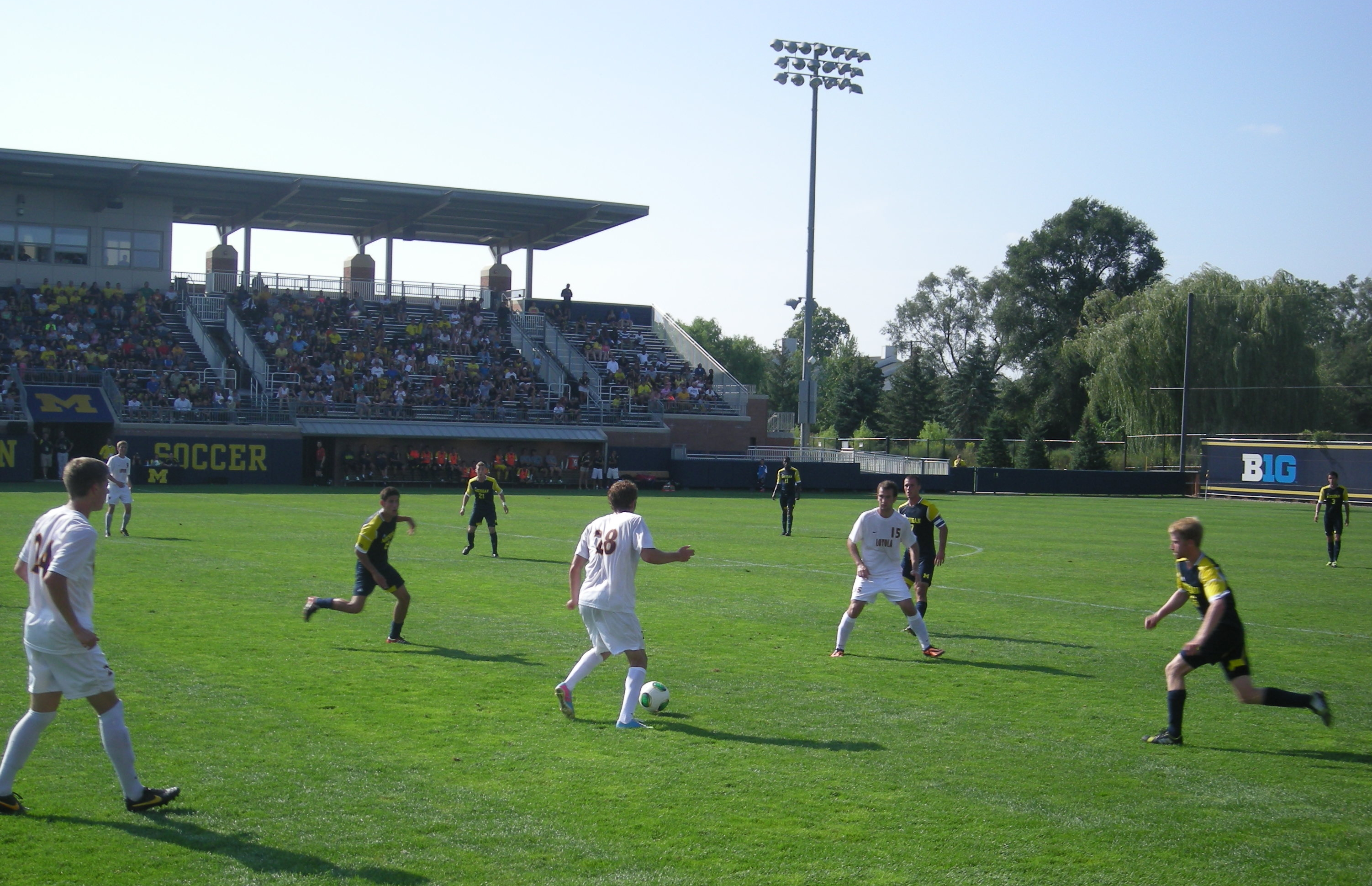 In-game action during the Loyola Ramblers vs. Michigan Wolverines men's soccer game at the U-M Soccer Stadium in Ann Arbor, Michigan (United States). Michigan won 5–2.